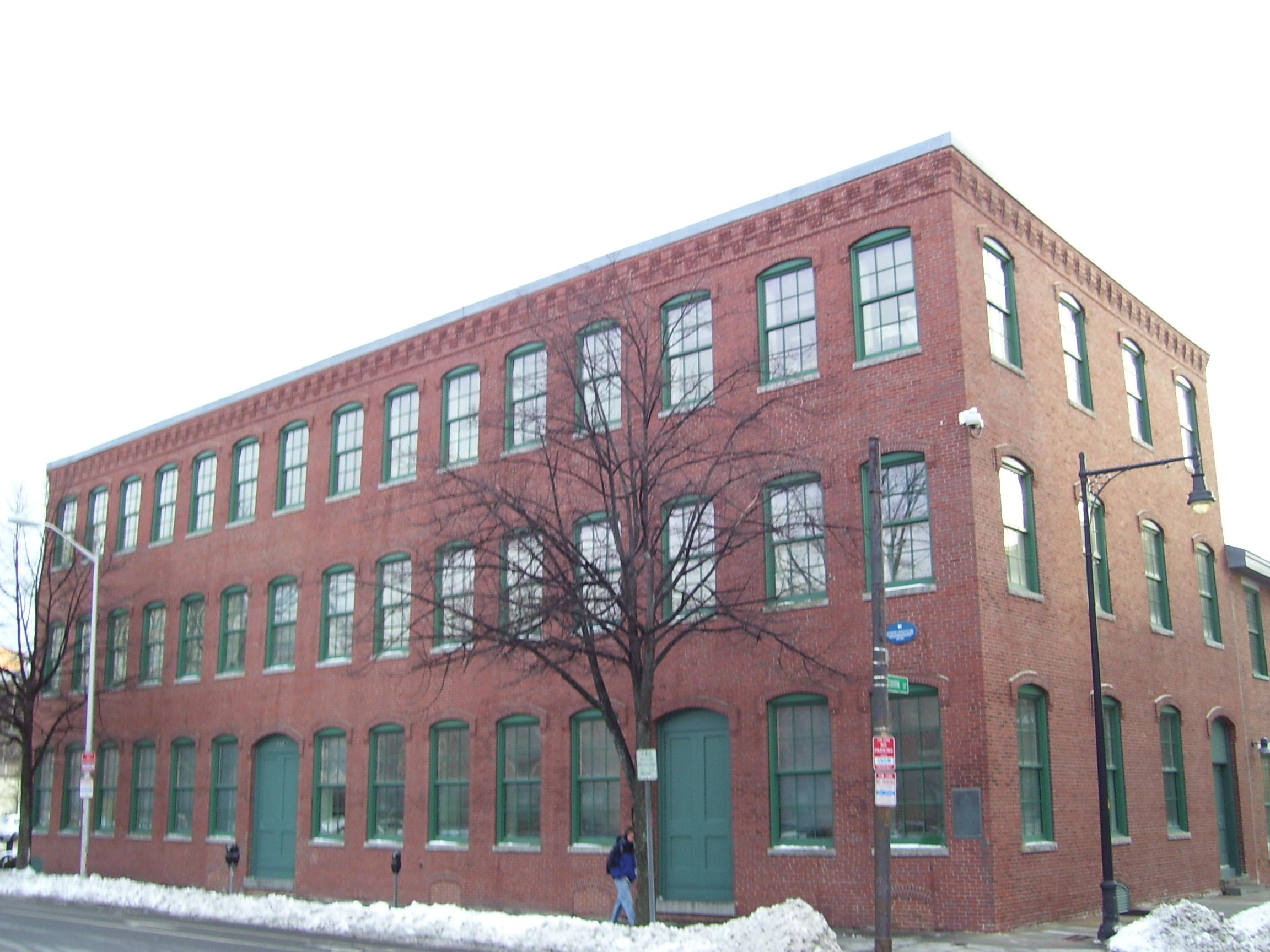 My 2010 photo of the site of the first long distance telephone call, located in Cambridge, Massachusetts.